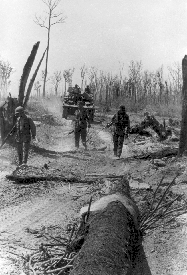 Engineers clear trail of mines in Cambodia.